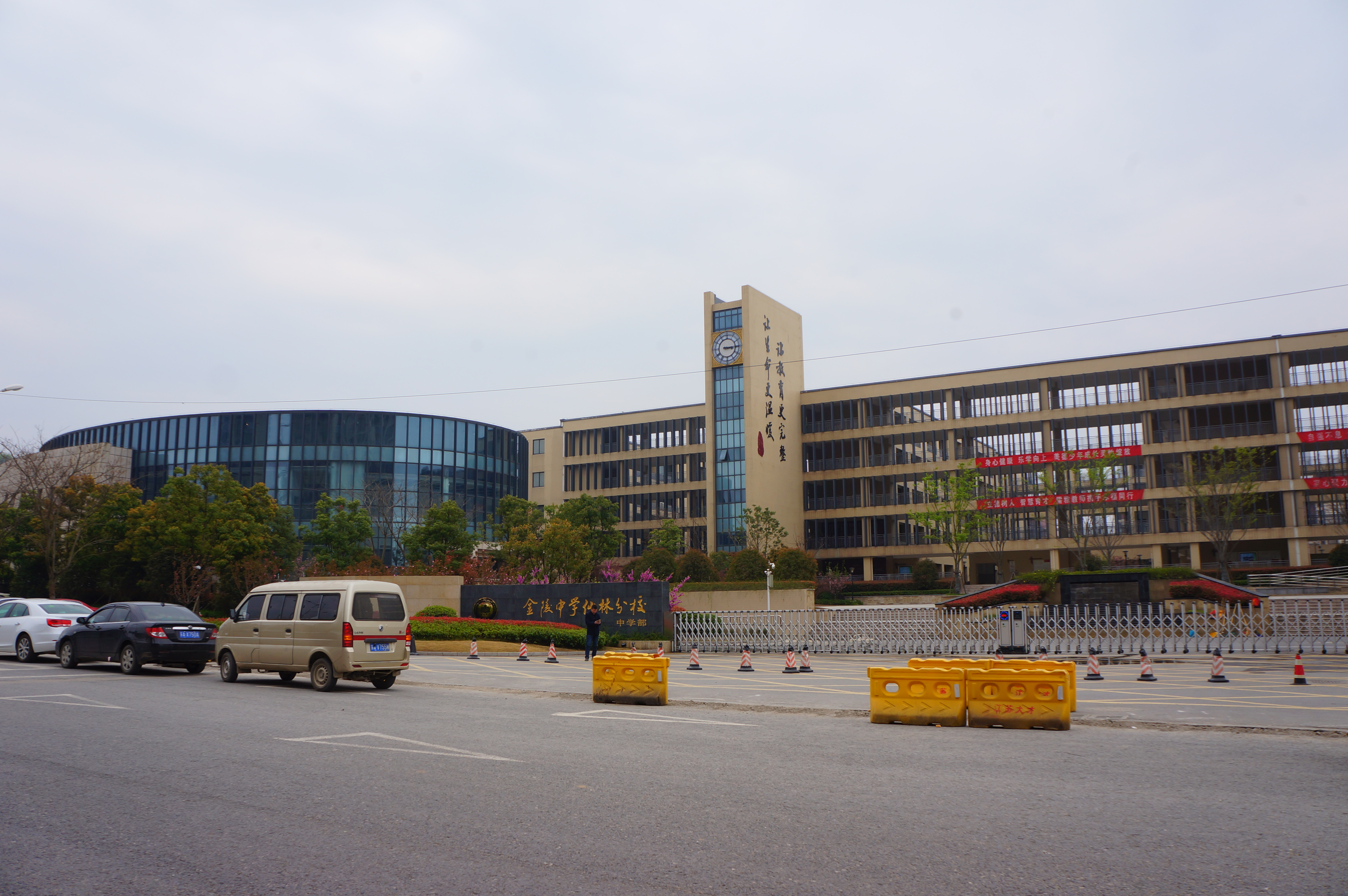 201704 Jinling High School Xianlin Campus